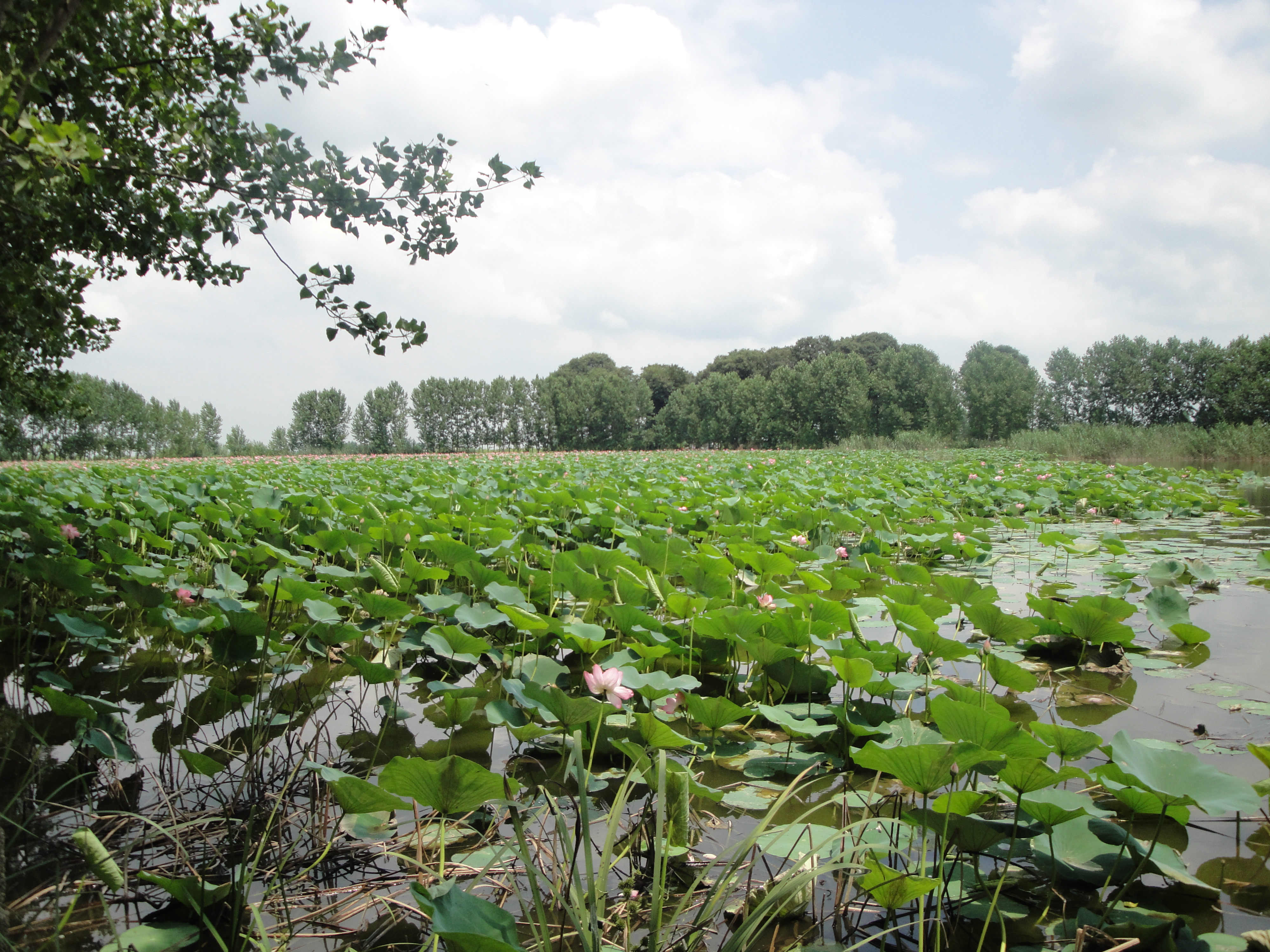 Tir Bijan Lagoon, Amol City, Iran